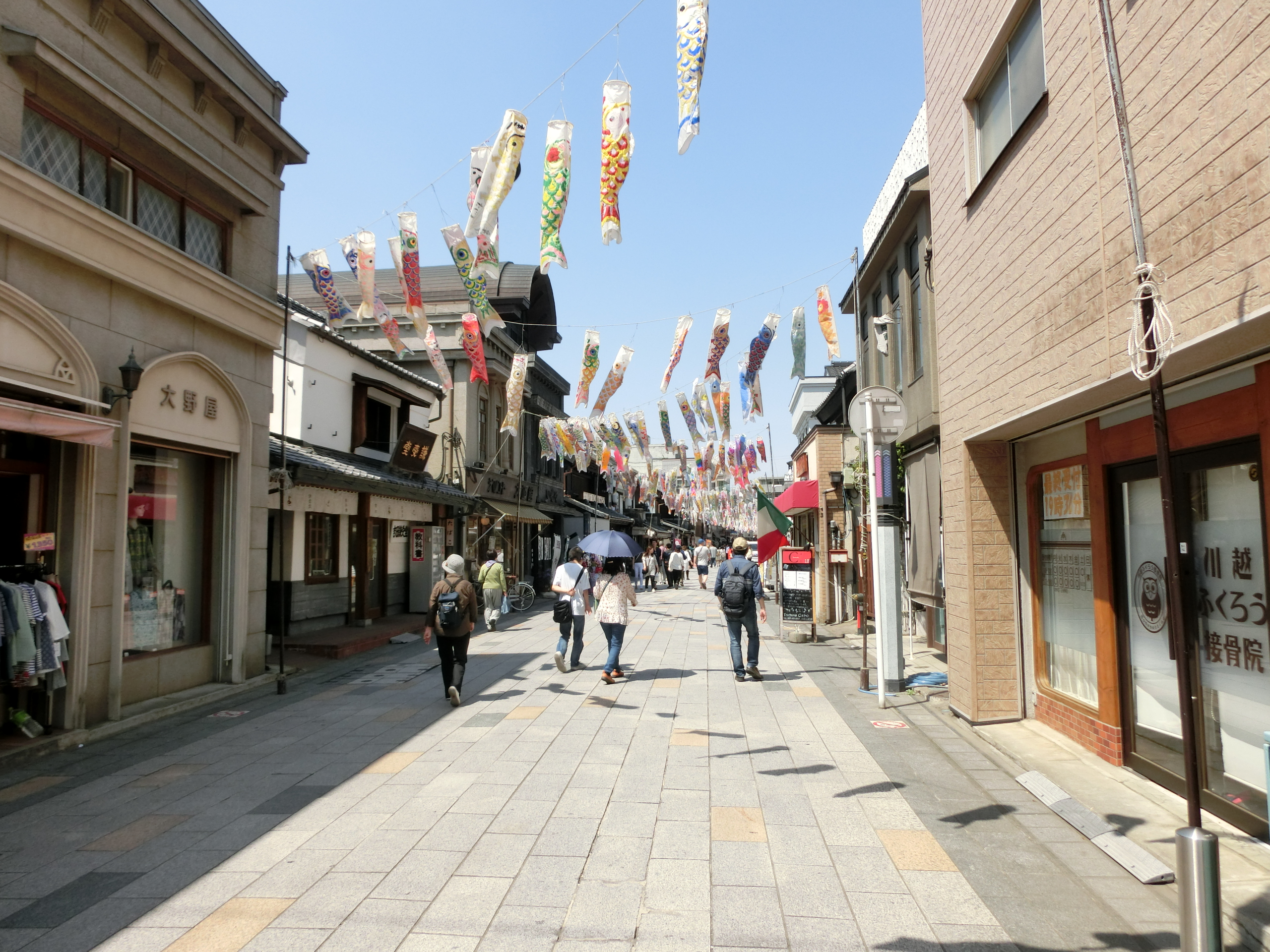 Taisho Roman Yume Dori